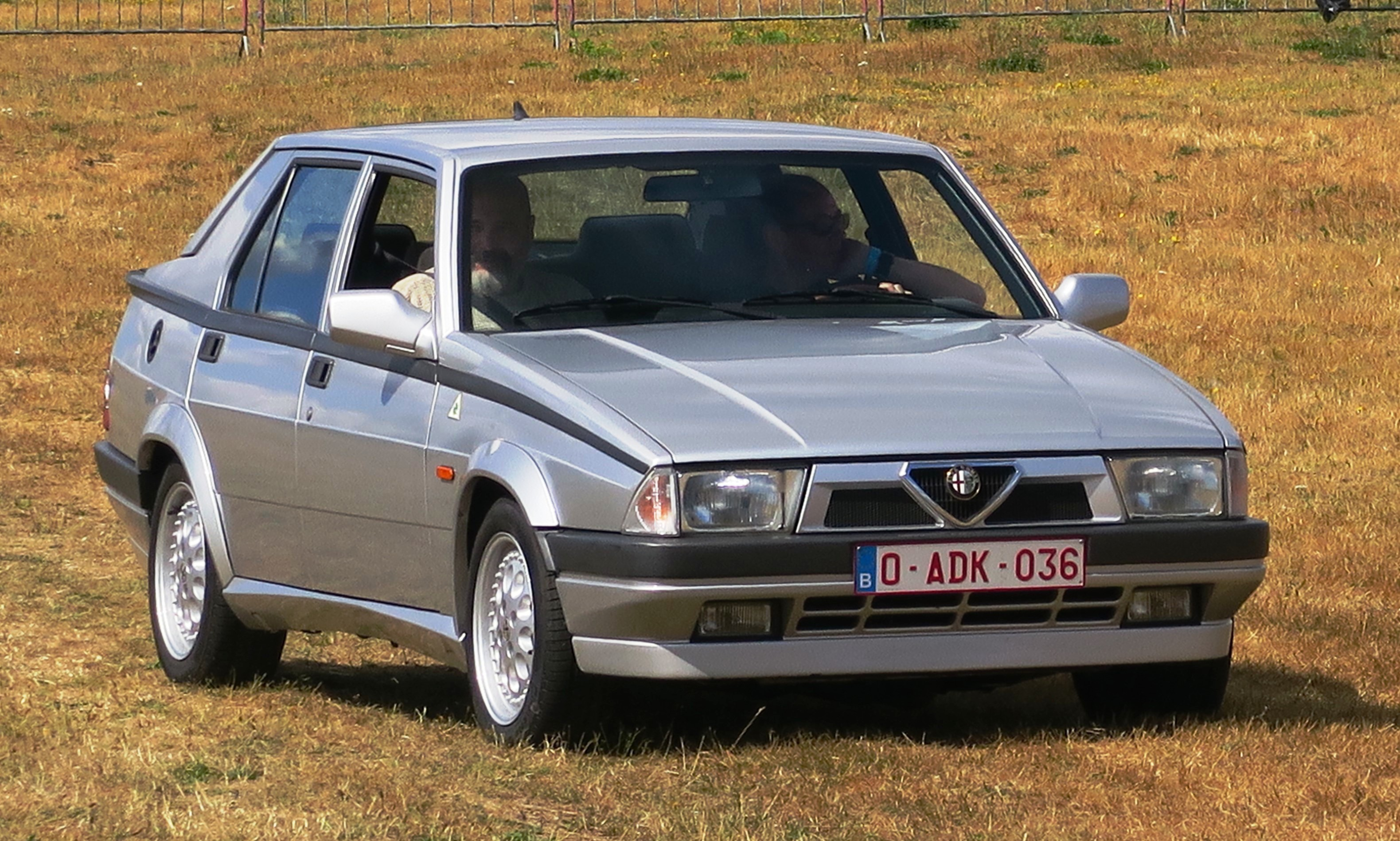 Alfa Romeo 75 Twin Spark 2.0